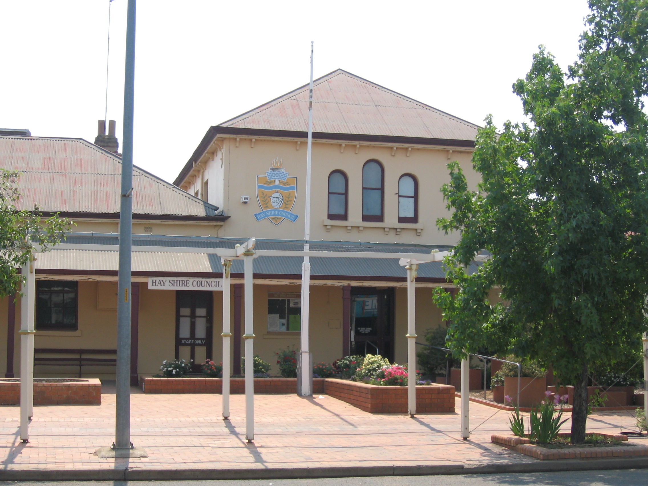 Hay Shire Council offices, Hay, New South Wales